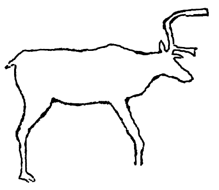 Sketch of the reindeer petroglyph at Bøla in Steinkjer.